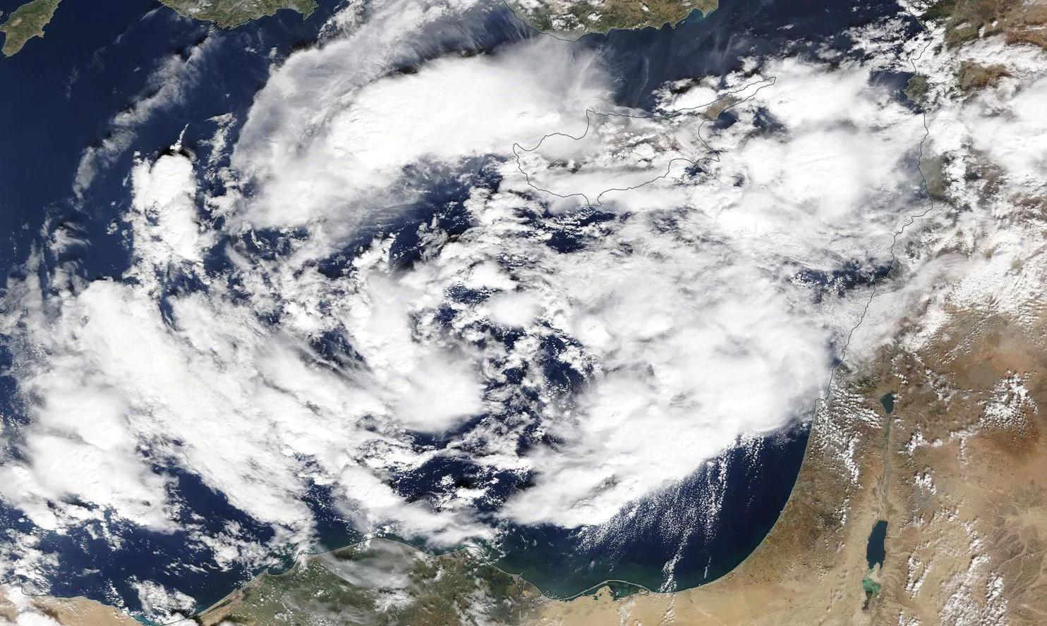 Satellite image of a Mediterranean tropical cyclone, or "Medicane", prior to making landfall in Egypt on October 24, 2019.